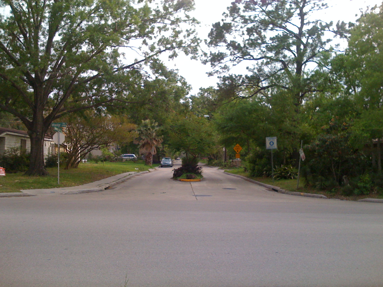 An entrance to University Oaks, an academic enclave of the University of Houston.